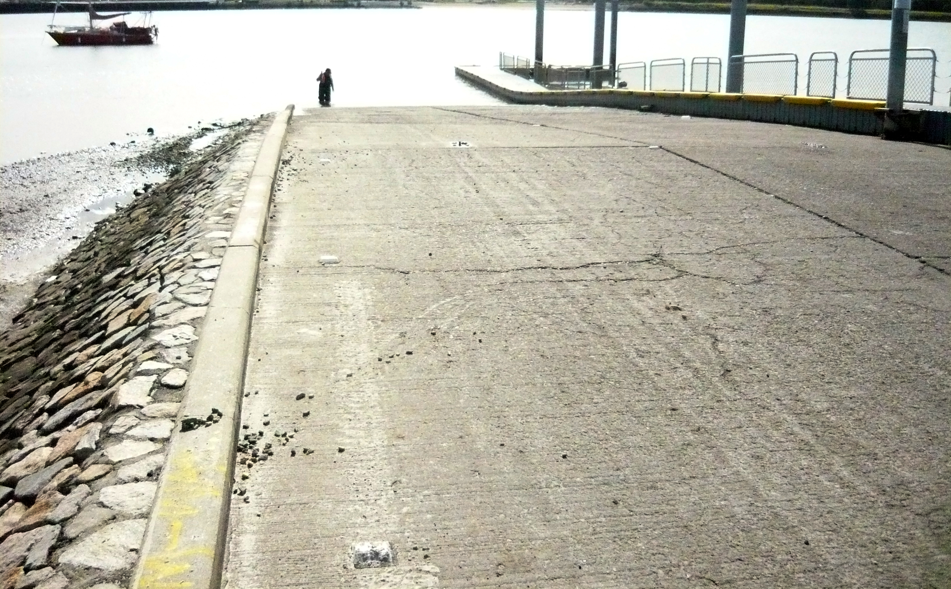 Double boat ramp at Colmslie Recreation Reserve, Morningside. There is also a single pontoon at this location and a fishing platform.